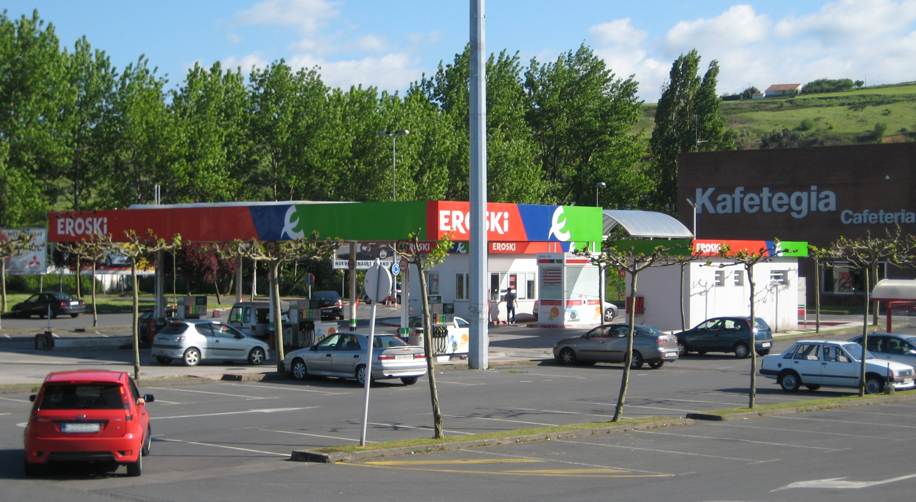 Gas station by Hiper Eroski Leioa supermarket in Leioa.